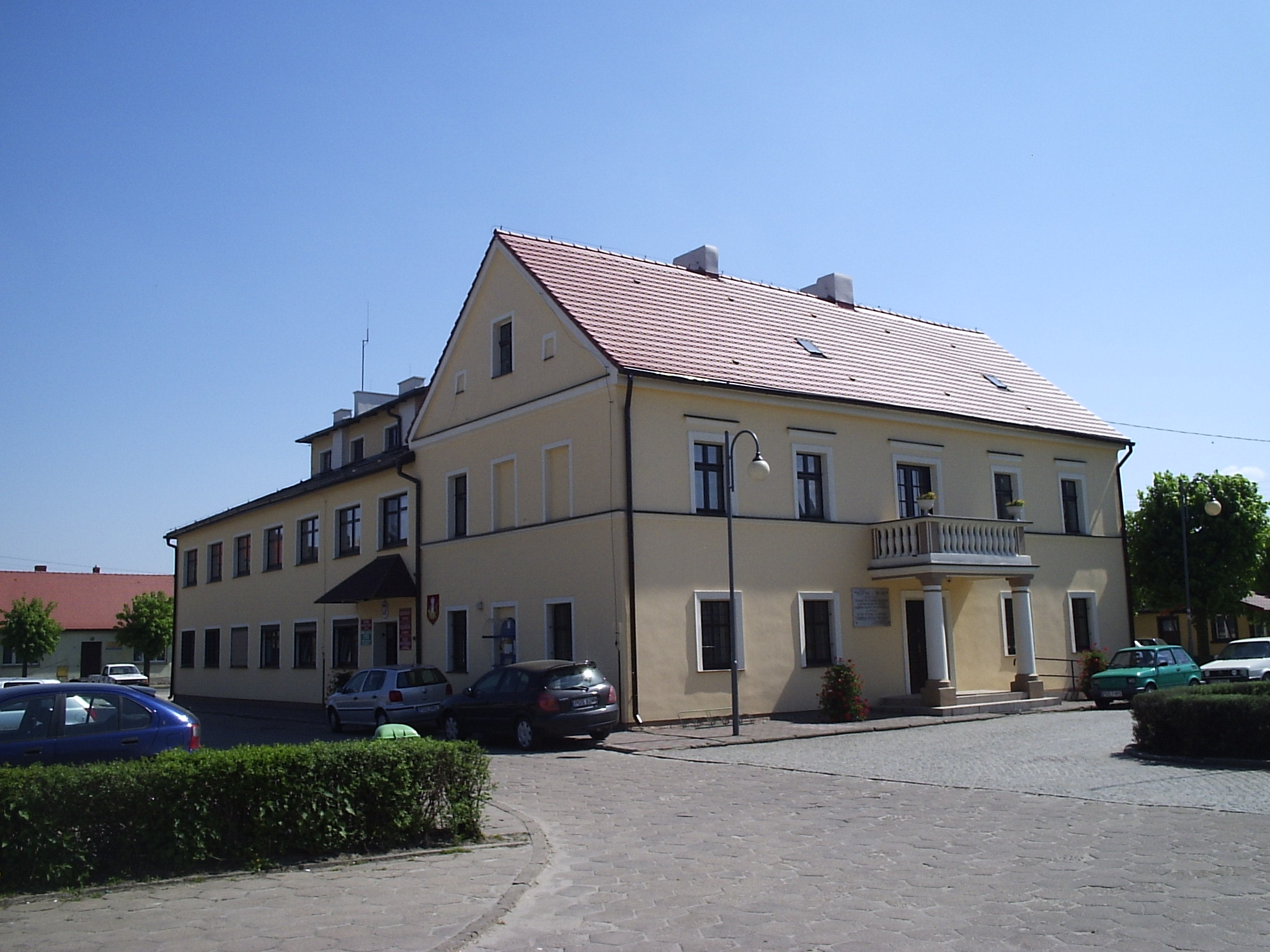 Town Hall in Pogorzela, Poland